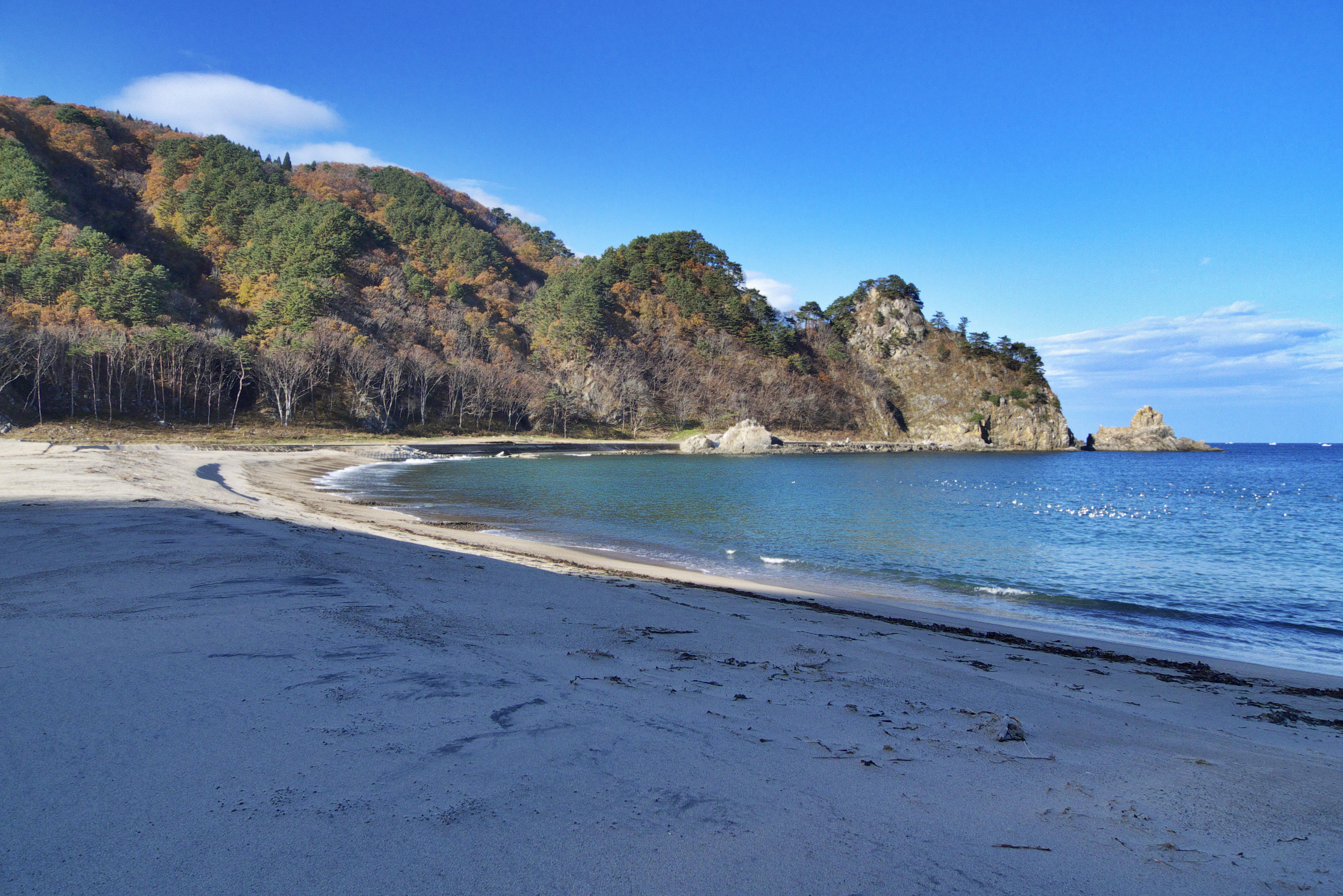 Fudaihama (Fudai Beach) in Fudai Village, Iwate Prefecture, Japan